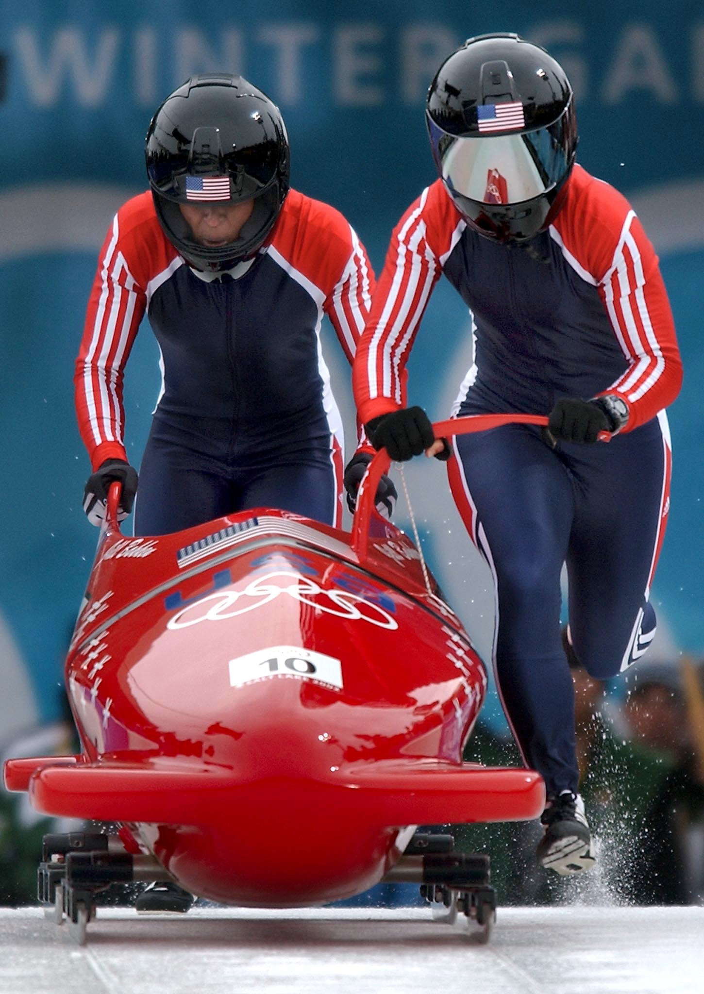 020219-N-3995K-304 Park City, UT (Feb.19, 2002) -- U.S. Army National Guard Spc. Jill Bakken (right) and Vonetta Flowers in "USA 2," sprint down the track as they begin their run for a Gold Medal in the 2002 Winter Olympics women's two-man bobsled event at Olympic Park in Park City, UT. )